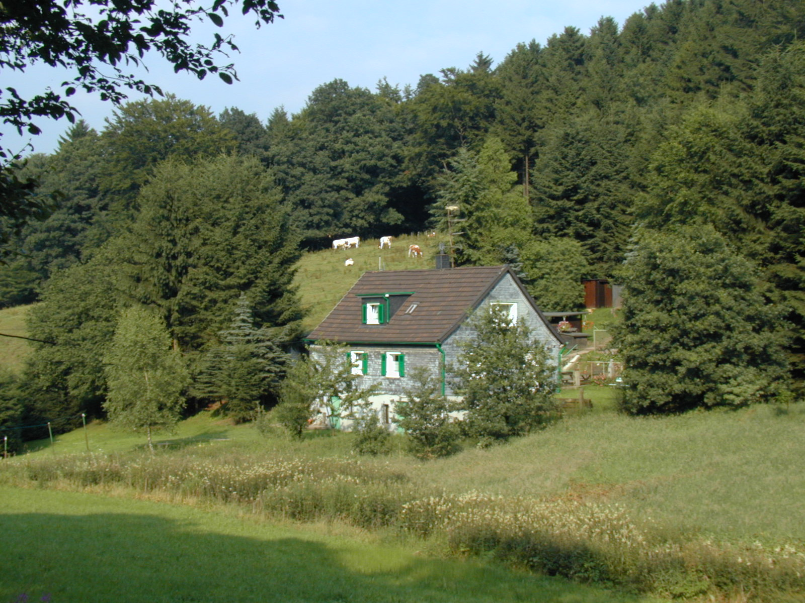 Luckhauser Kotten in Wuppertal